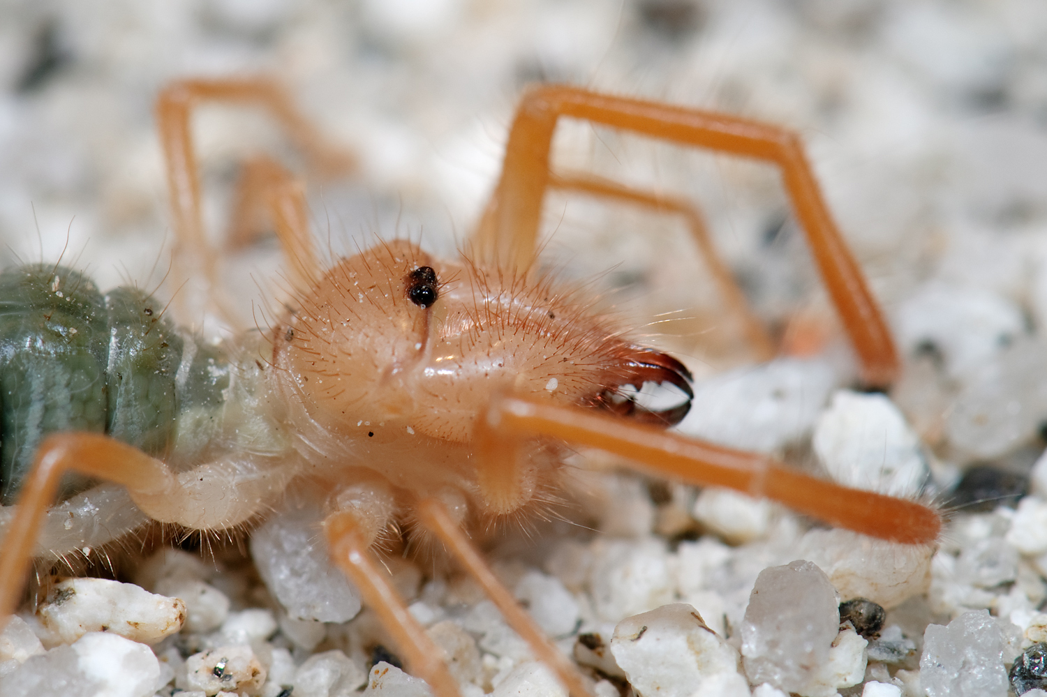 photographed at night, wandering on dune